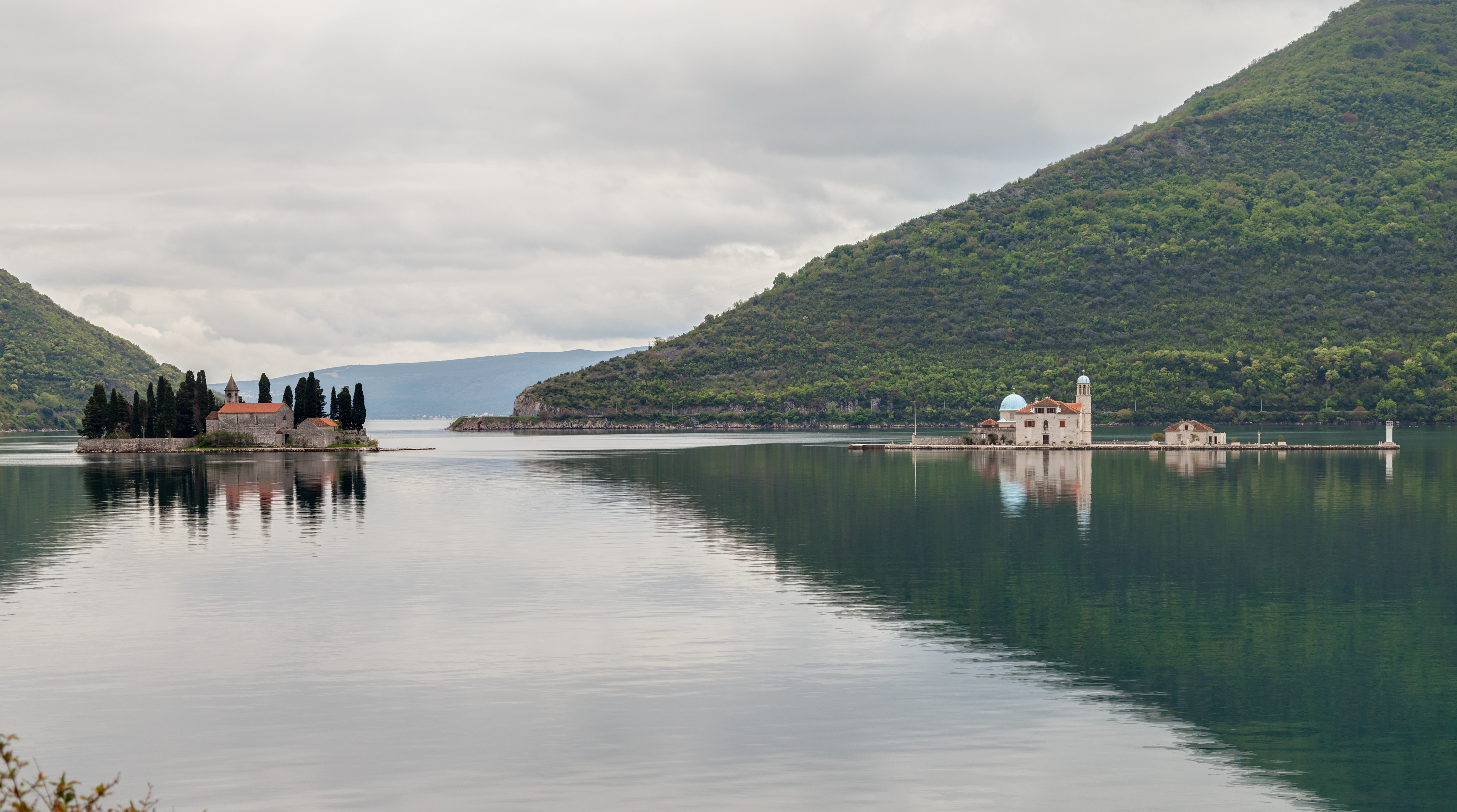 Our Lady of the Rocks and St George Monastery, Perast, Bay of Kotor, Montenegro